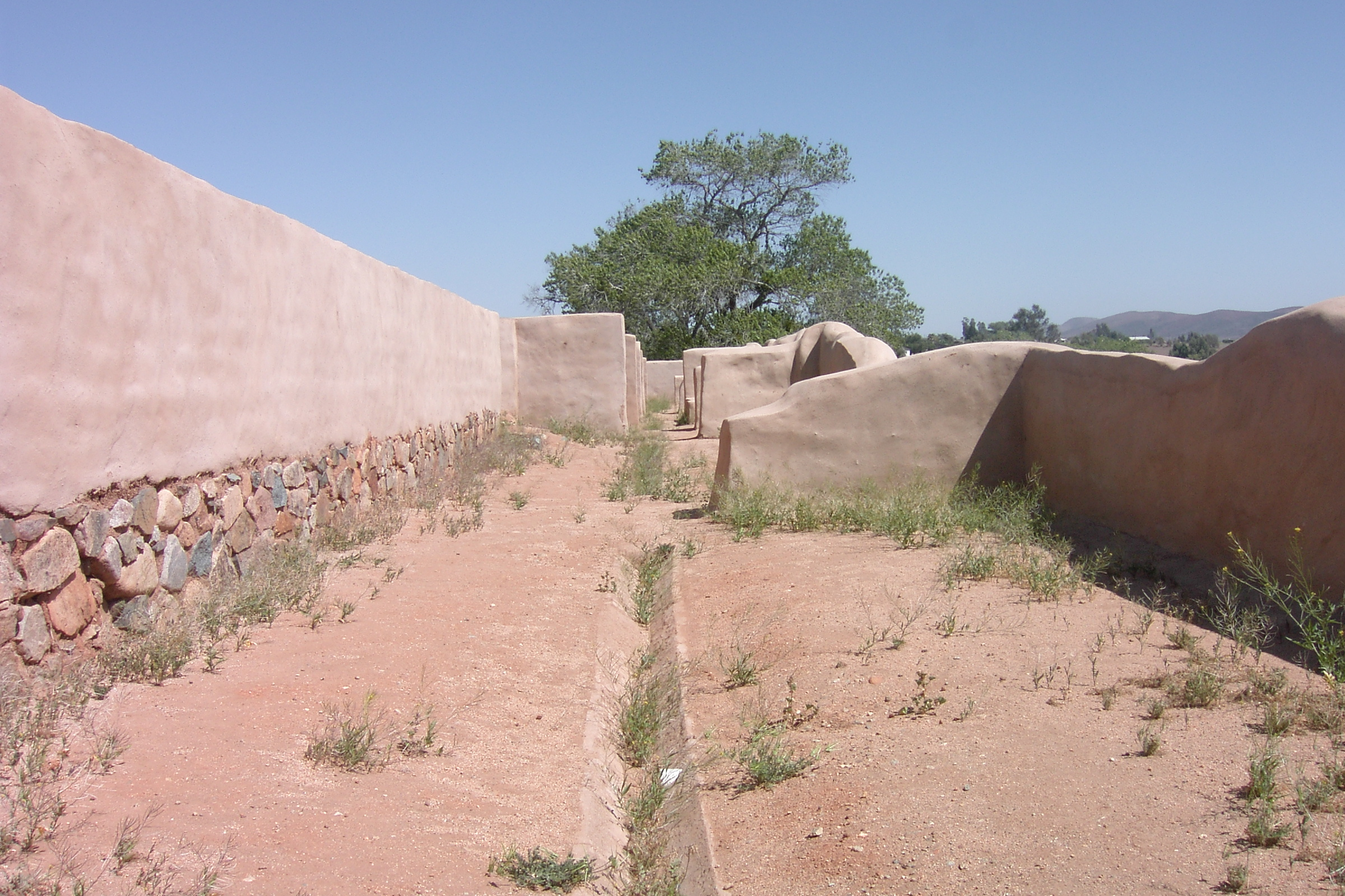 Photo of the jail in San Vicente Ferrer Mision taken on 20 May 2006.